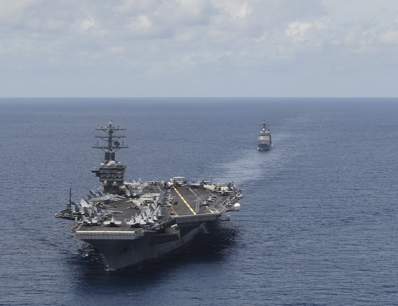 The aircraft carrier USS Nimitz (CVN 68), foreground, and the guided missile cruiser USS Princeton (CG 59) transit the Indian Ocean June 1, 2013. The Nimitz and Princeton were underway in the U.S. 7th Fleet area of responsibility conducting maritime security operations and theater security cooperation efforts.